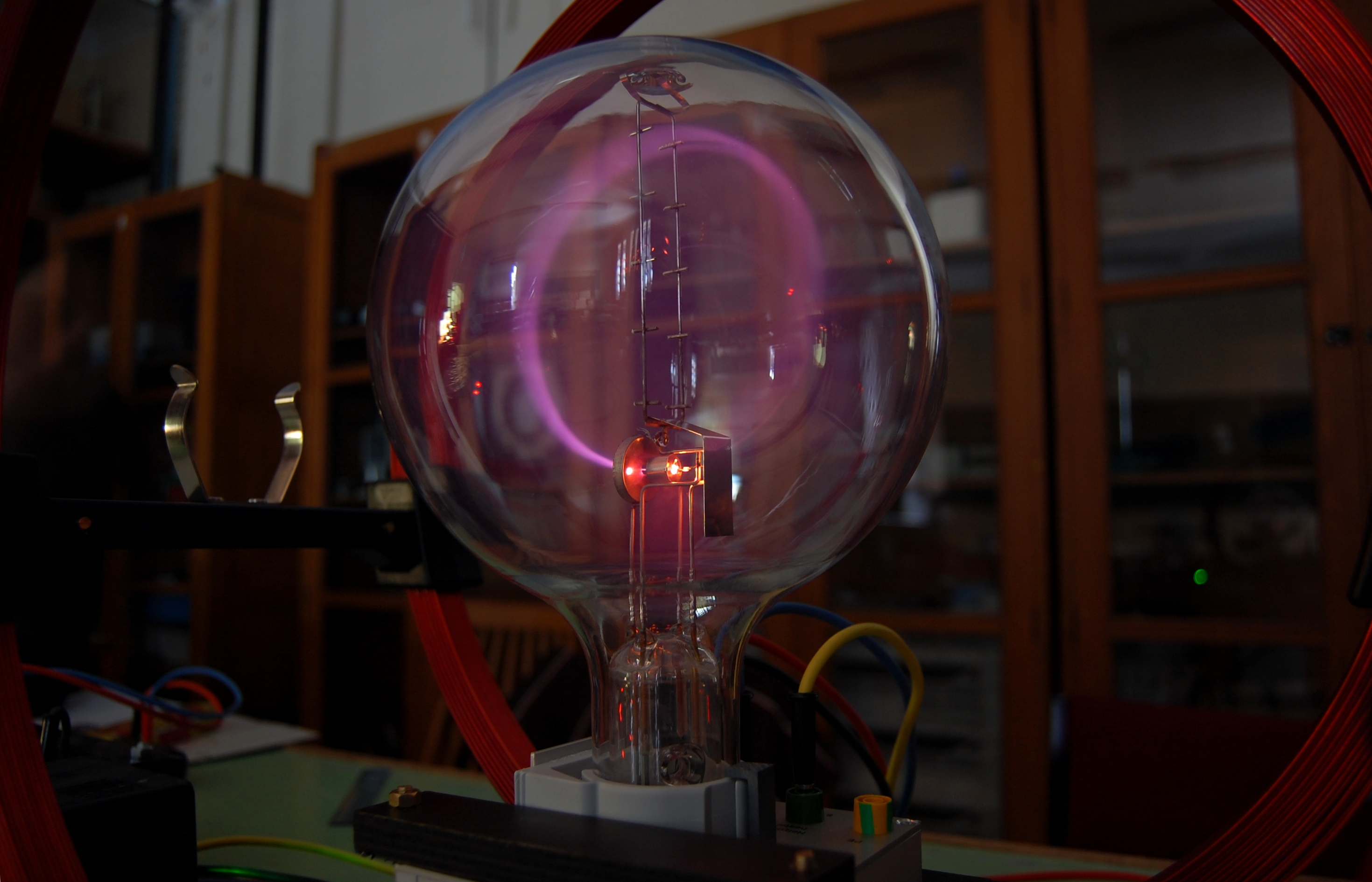 Beam of electrons emitted by an electron gun moving in a circle in a magnetic field (cyclotron motion). The electrons themselves are invisible, but their path is made visible by residual air molecules which glow by fluorescence when struck by the fast-moving electrons.